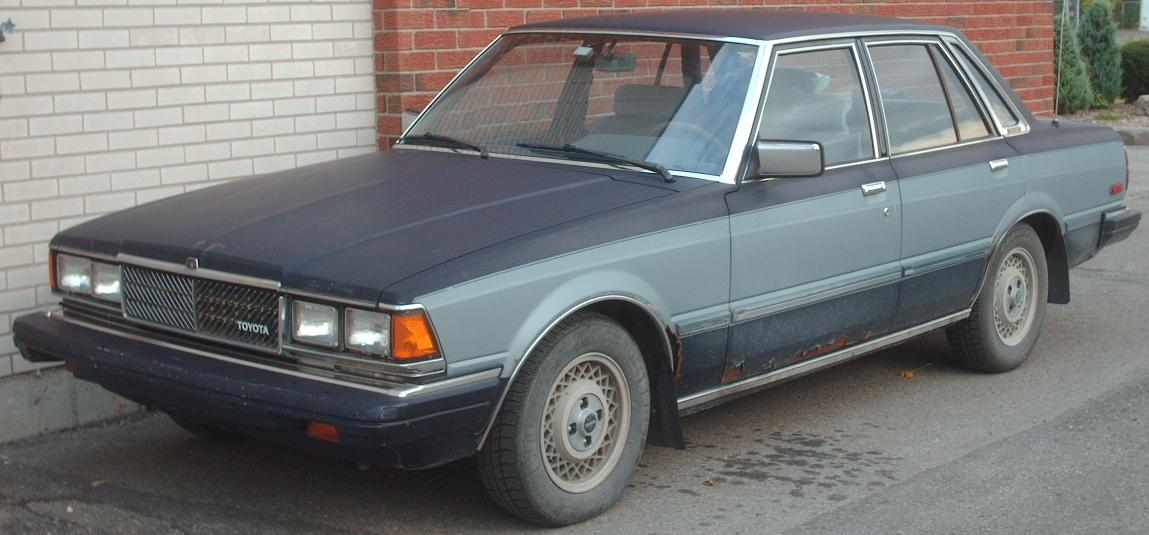 1981-1982 Toyota Cressida photographed in Montreal, Quebec, Canada.